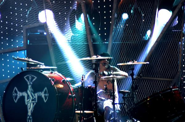 Tommy Lee on drums with Mötley Crüe